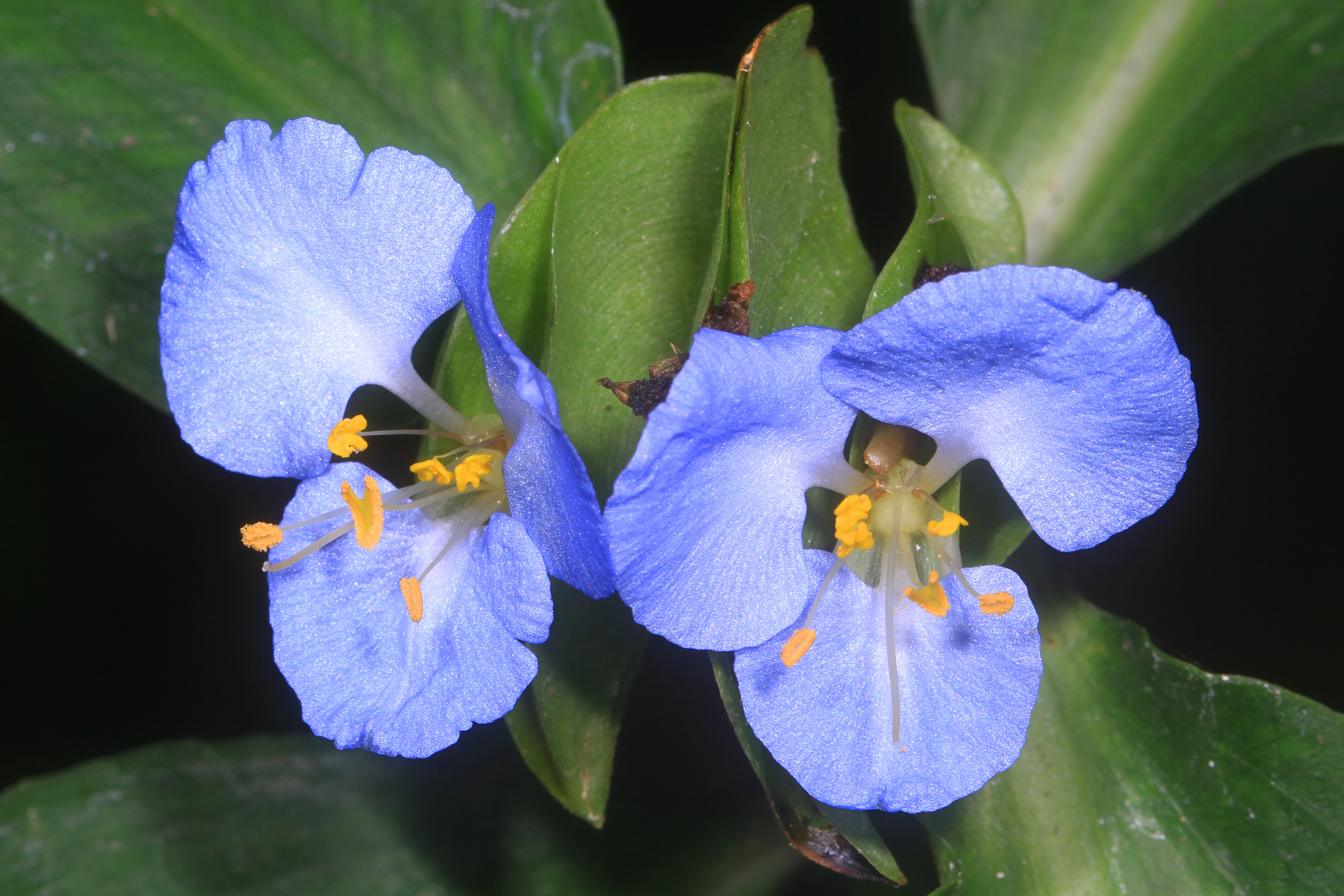 Virginia Dayflower - Commelina virginica, Leesylvania State Park, Woodbridge, Virginia.